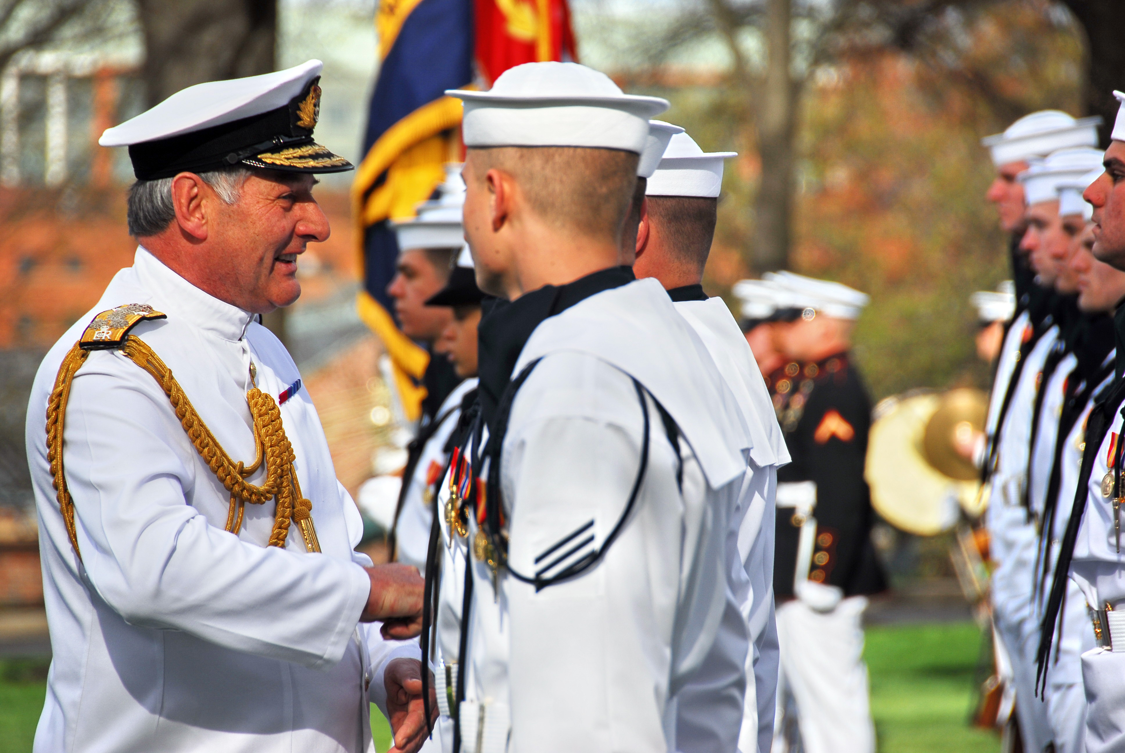 WASHINGTON (April 13, 2009) Adm. Sir Jonathon Band, GCB, ADC, First Sea Lord and Chief of Naval Staff of the Royal Navy, left, speaks with a Sailor from the U.S. Navy Ceremonial Guard at the Washington Navy Yard during an arrival ceremony hosted by Chief of Naval Operations Adm. Gary Roughead. (U.S. Navy photo by Joseph P Cirone/Released)